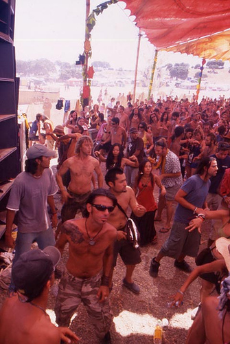 Crowd Dancing at the Boom Festival